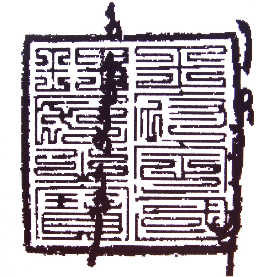 Seal of the Mongol ruler Ghazan in a 1302 letter to Pope Boniface VIII. The inscription in Chinese seal script reads (top-to-bottom, right-to-left): 王府定國理民之寶 (simplified 王府定国理民之宝).